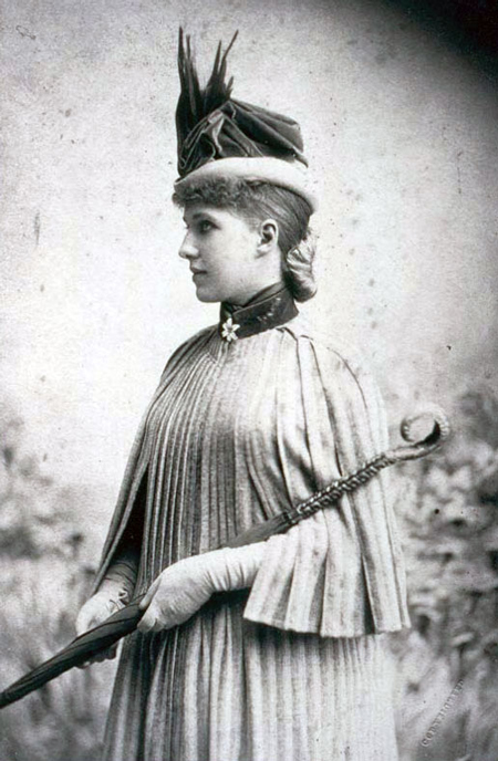 U.S. novelist and poet Amélie Rives (1863-1945)